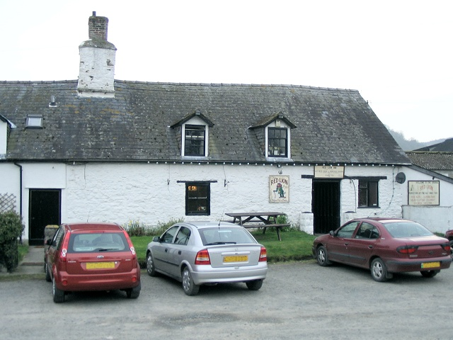 The Red Lion pub at Llanafan-fawr The Red Lion claims the distinction of being the oldest pub in Powys.